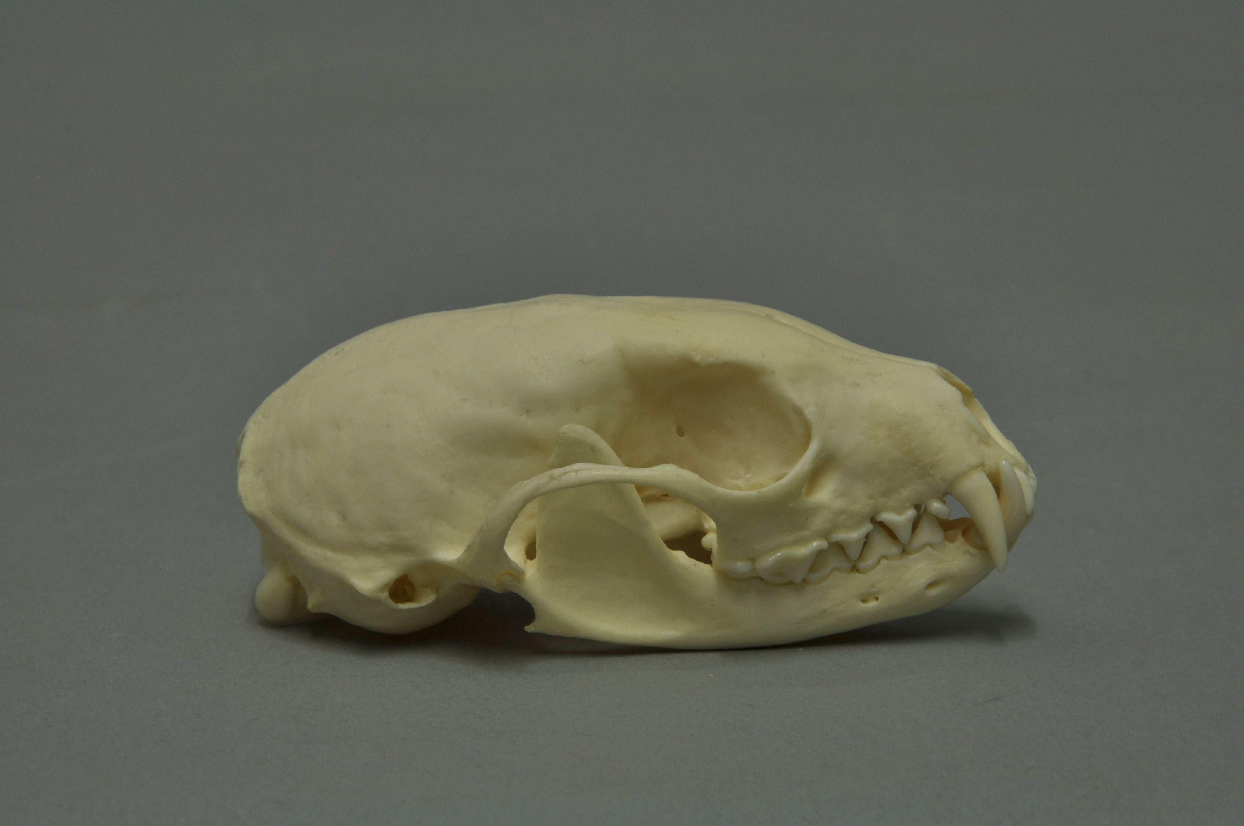 European pine marten Martes martes , skull, Coll. Museum Wiesbaden